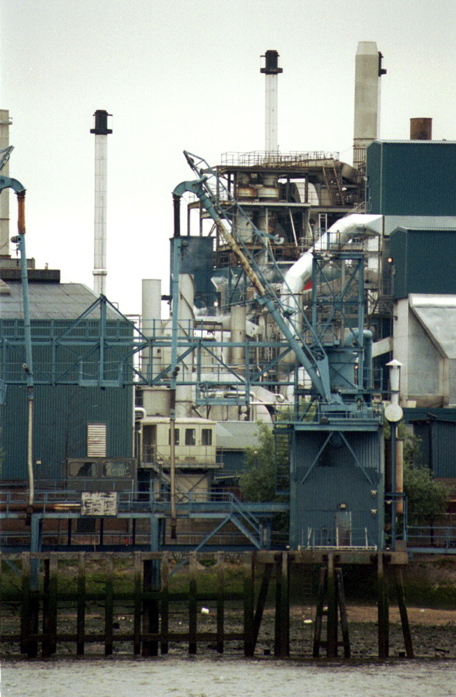 The western side of the Greenwich Peninsula seen from the Thames in 2001 - Tunnel Refineries glucose works.